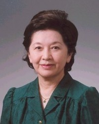 Kyōko Nakayama of the Party of Hope.